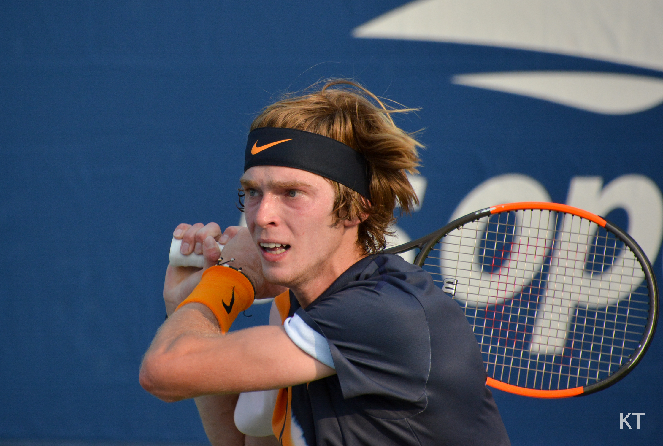 Day 1 of US Open 2018 – Monday, 27th August 2018.